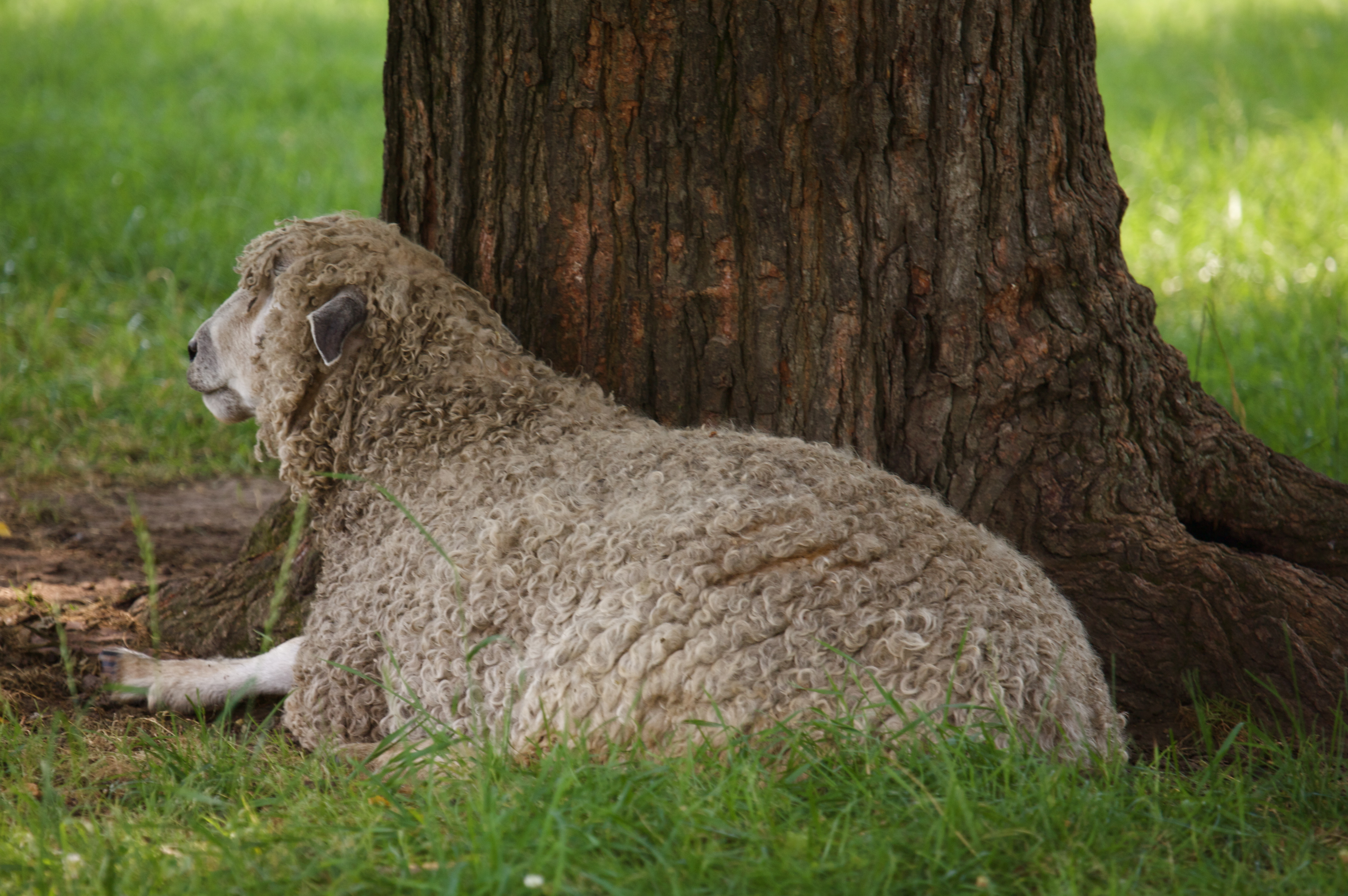 A Leicester Longwool (also known by other names) at Colonial Williamsburg.